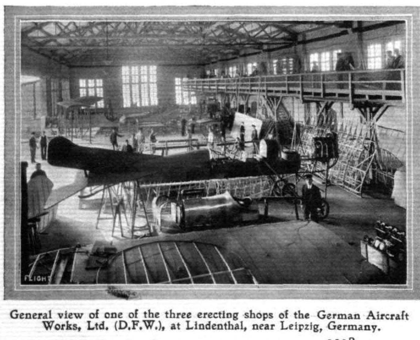 Deutsche Flugzeug-Werke workshop in 1913